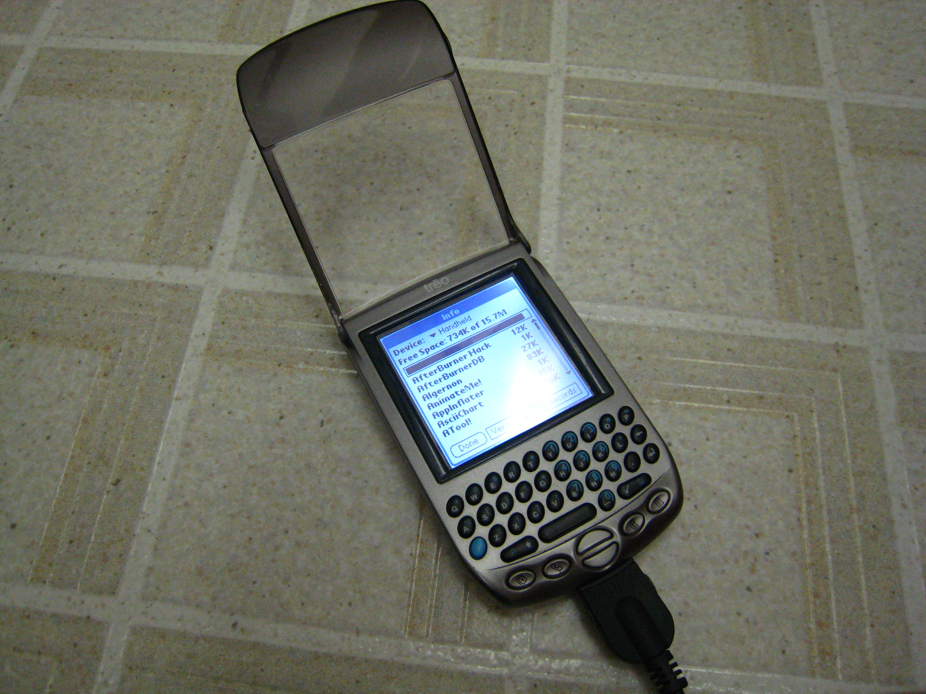 My Handspring Treo 90